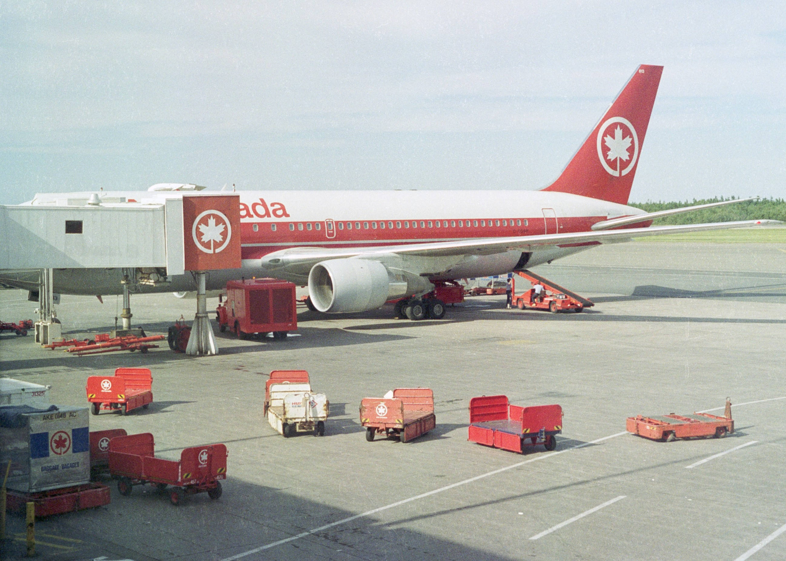 Boeing 767-233/ER C-GDSP (cn 24142/229) Air Canada (in service until 2008). Halifax - Robert L Stanfield International (YHZ / CYHZ) Canada - Nova Scotia, August 1990.